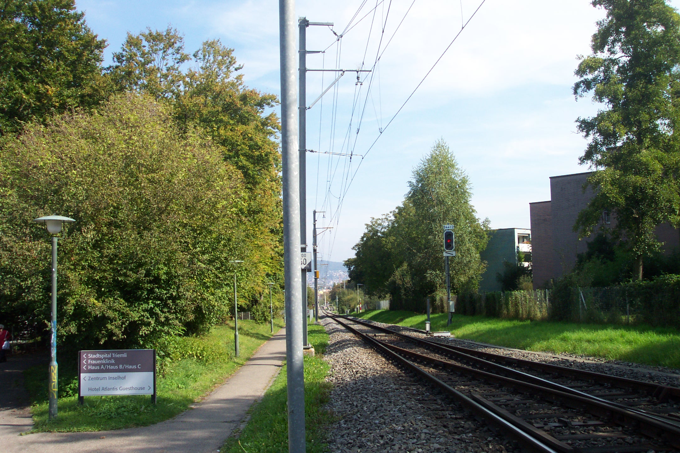 Zurich Triemli railway station, looking downhill towards central Zurich. For more information, please see Wikipedia article Zurich Triemli railway station.